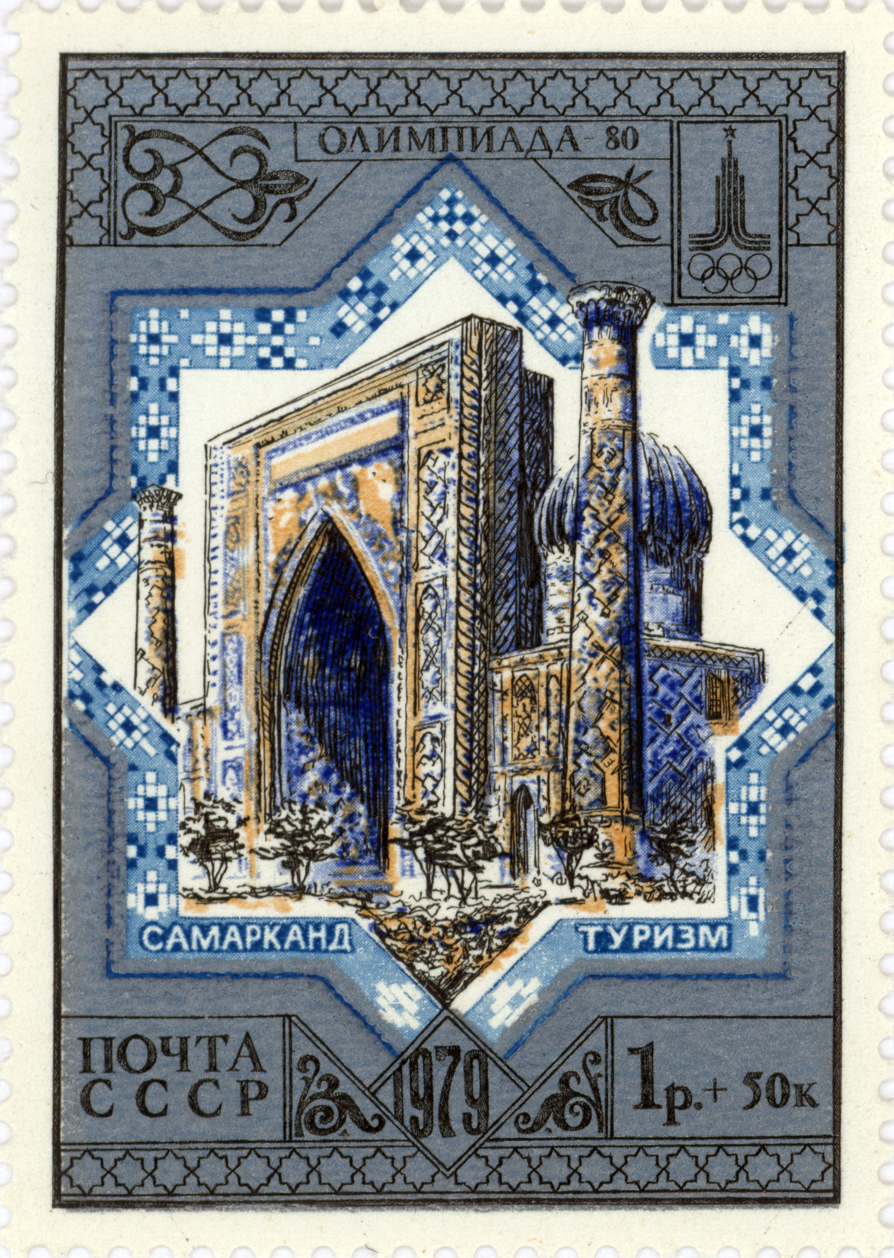 1979 USSR stamp. Samarkand. Shir-Dor madrasah.